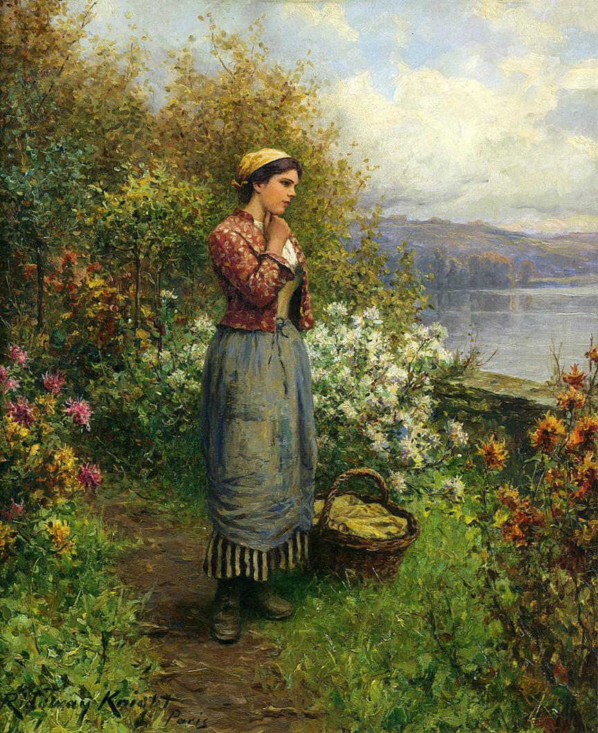 Julia on the Terrace